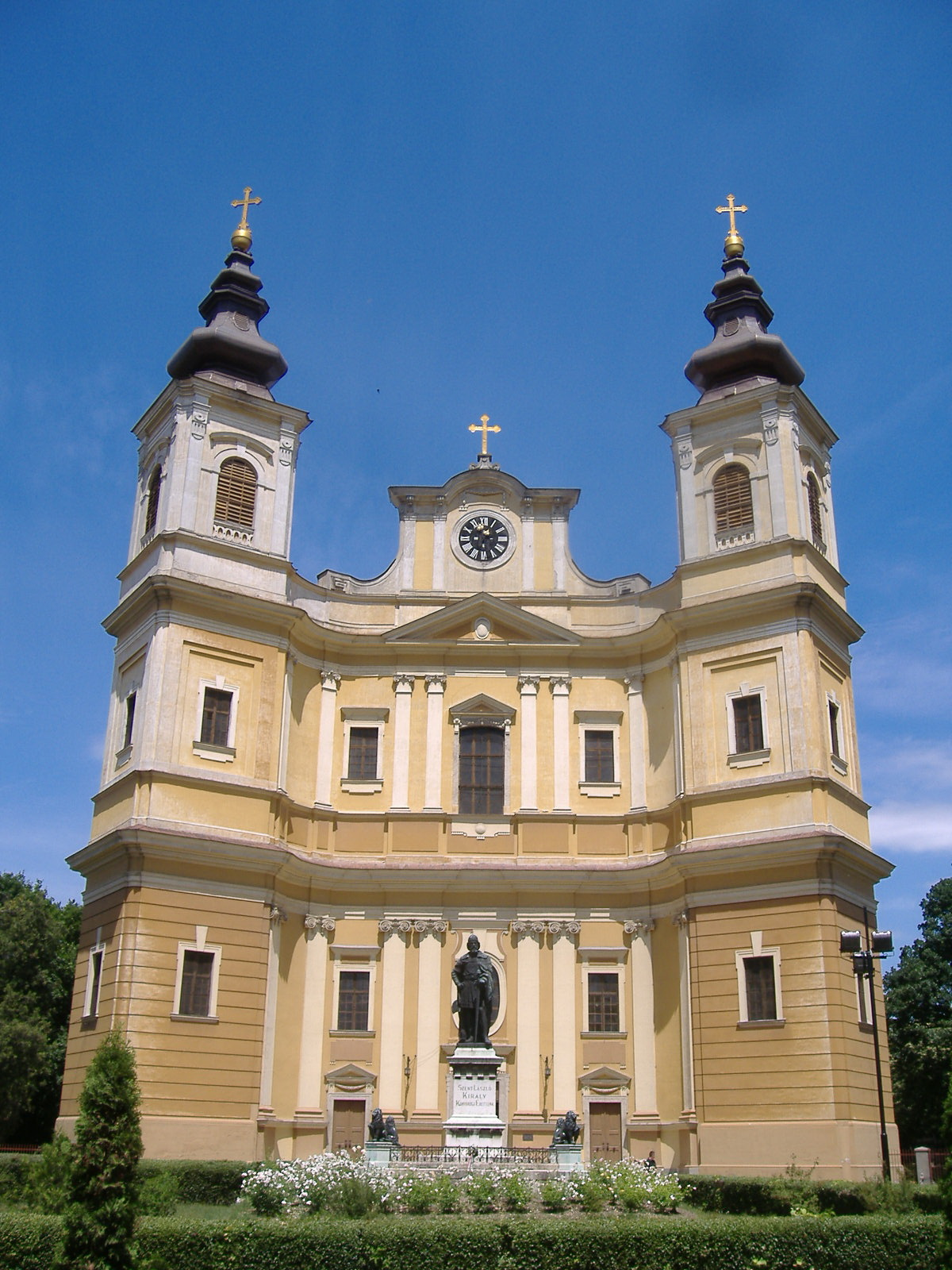 Roman Catholic Basilica of Oradea